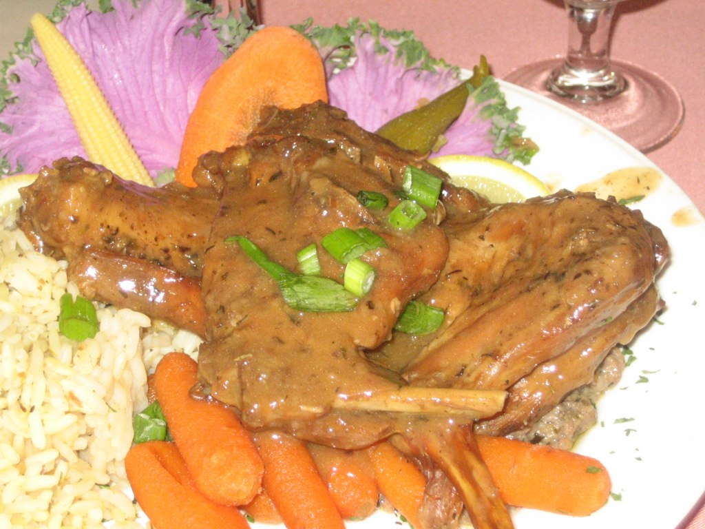 Creole Rabbit at Oliver's Restaurant, French Quarter, New Orleans